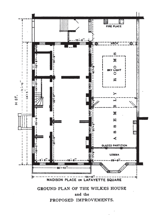 Plan of interior architectural alterations made by the Cosmos Club to the Cutts-Madison House at 721 Madison Place NW in Washington, D.C., in 1886.